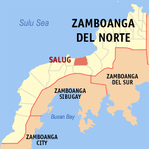 Map of the Zamboanga del Norte showing the location of Salug